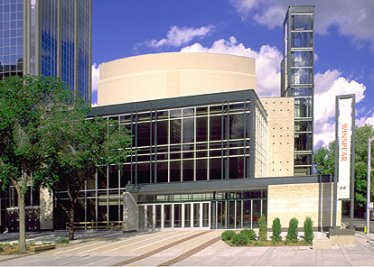 A publicity photo of the Francis Winspear Centre for Music, Edmonton Alberta